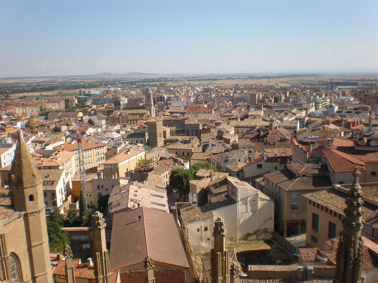 Huesca from Cathedral's belfry